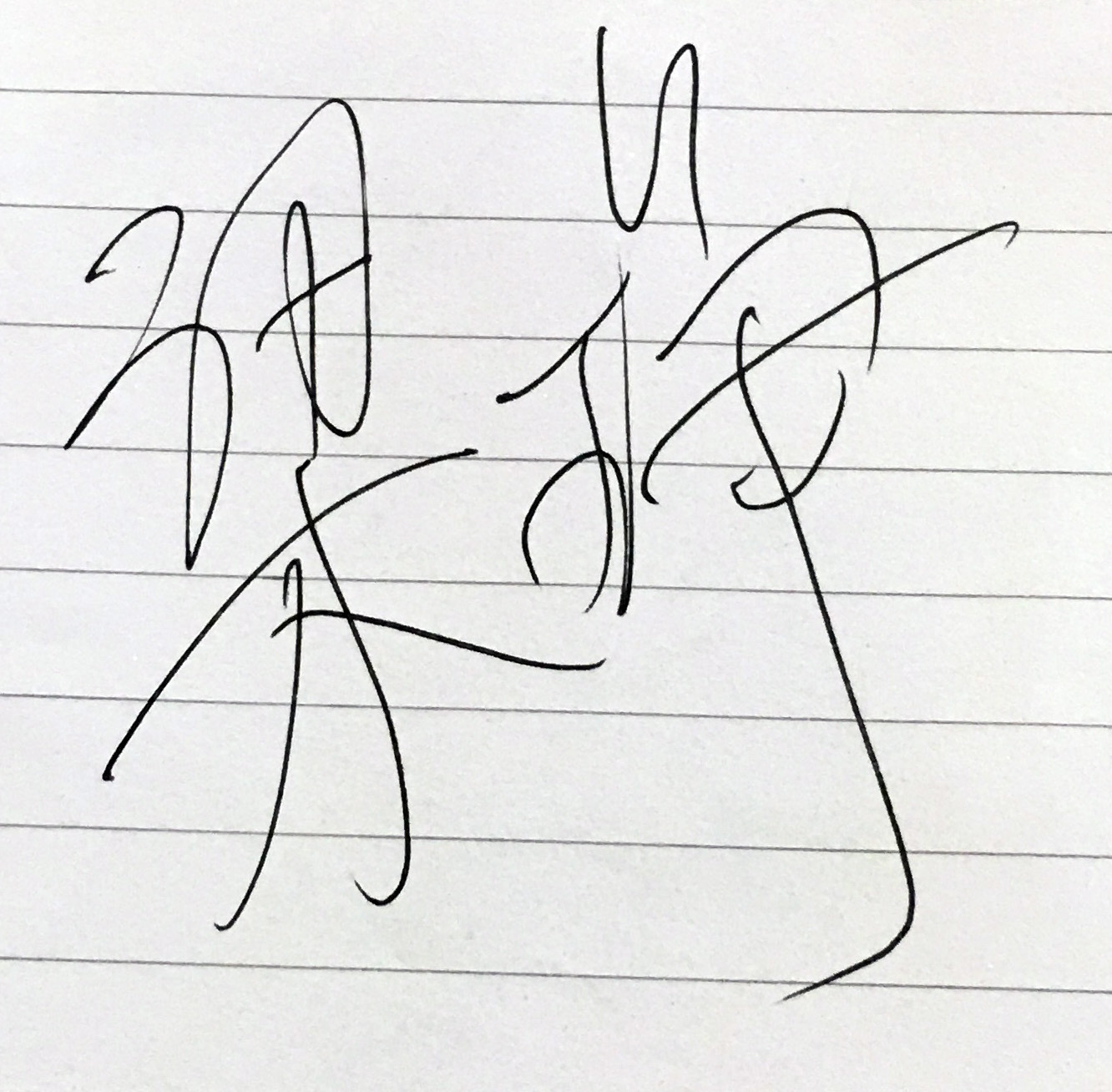 This is Jade Leung's signature.